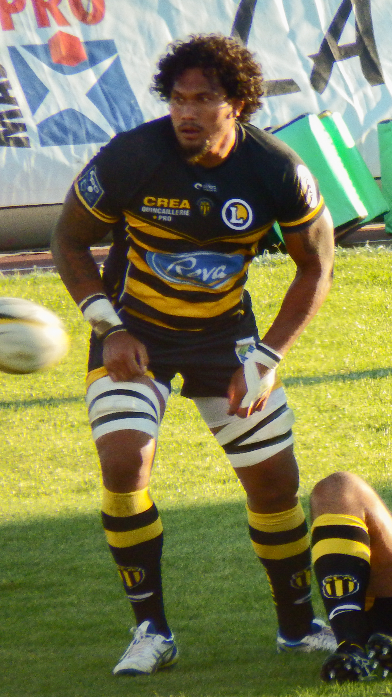 Pro D2 2014-2015 — 13 September 2014, Stadium municipal d'Albi. Match between: SC Albi — US Dax